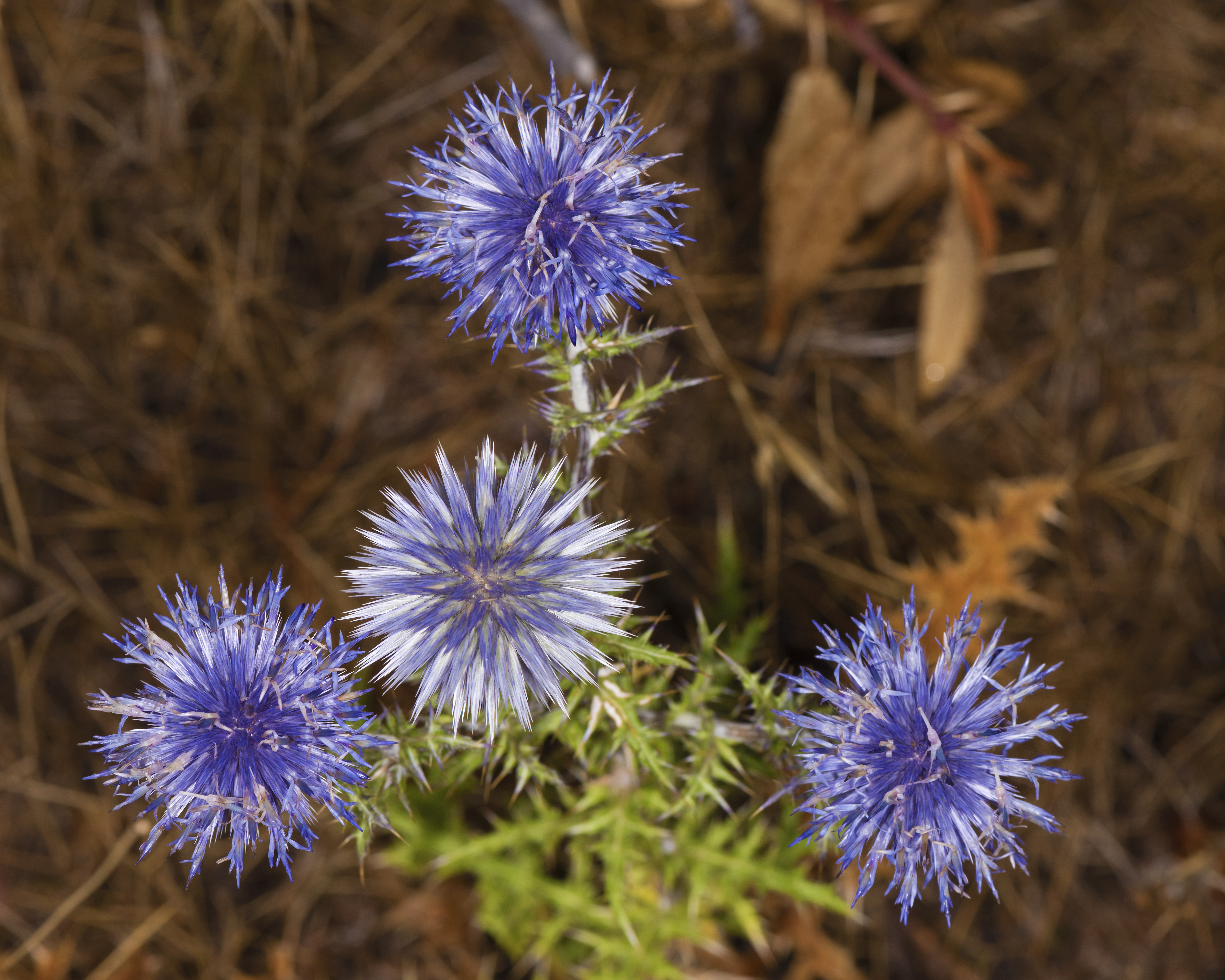 Echinops ritro (Southern globethistle). Forest of Sète, Sète, Hérault, France.